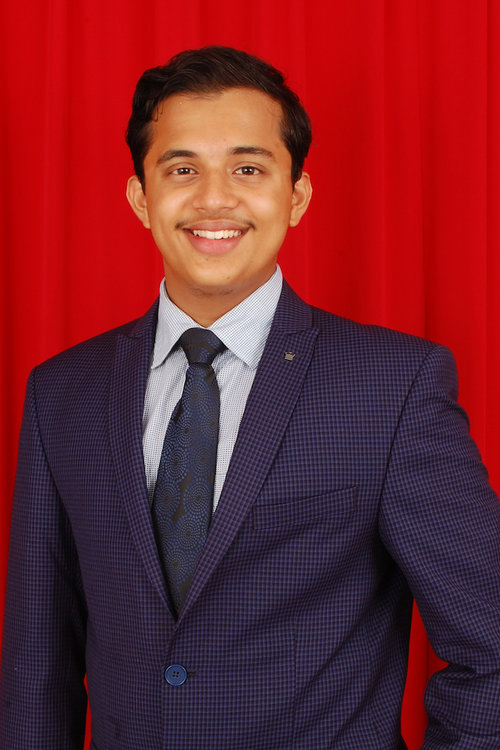 Portrait of Hridith Sudev, one of the winners of Young EcoHero Award 2017